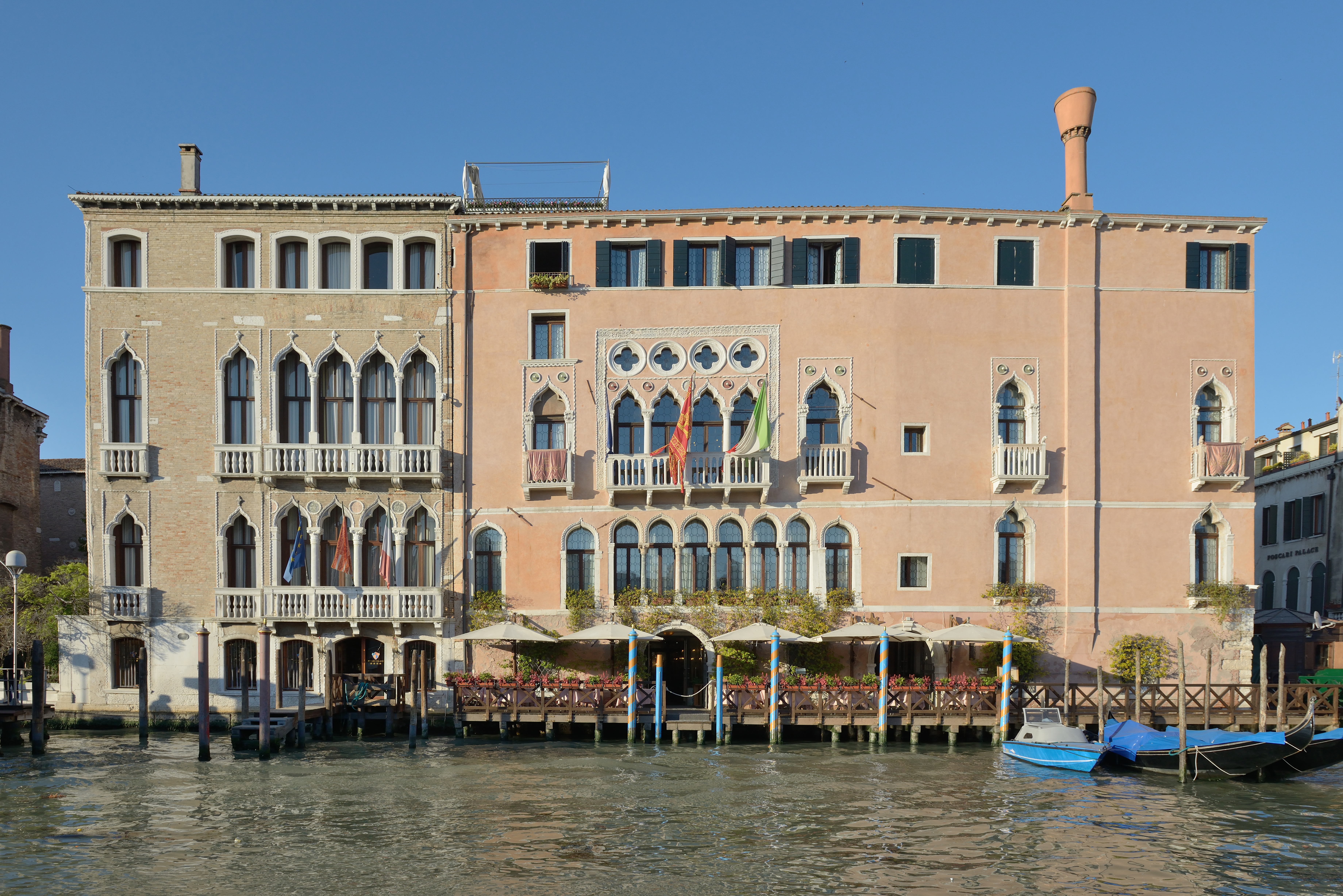 Palaces Giustinian Pesaro on the left and Ca' Sagredo on the right side in Venice. Facade on Grand Canal.